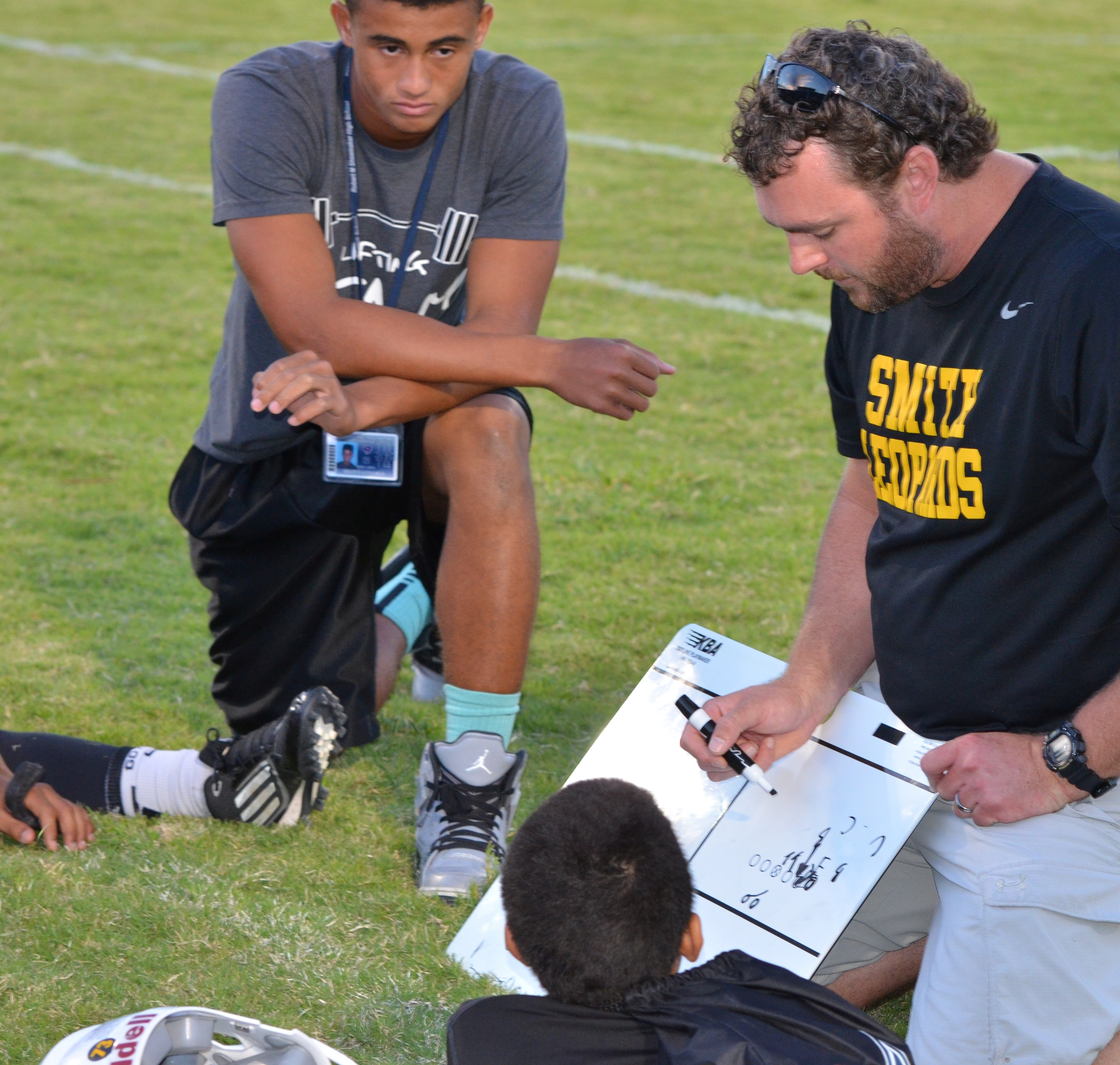 Kenny Whittenburg, the assistant coach of the Smith Middle School Leopards Football Team, during halftime of their game for members of the football team against their on-post rival Audie Murphy Middle School Falcons at Fort Hood Stadium Sept. 23. (Courtesy photo by Kimberly Flores-Anderson, Smith Middle School pre-journalism class)